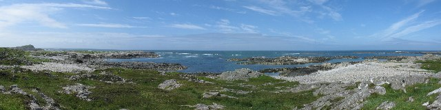 Panorama of Port Mor, Colonsay. view from SW round to NW, showing Dun Ghallain (far left) and raised beaches in the foreground